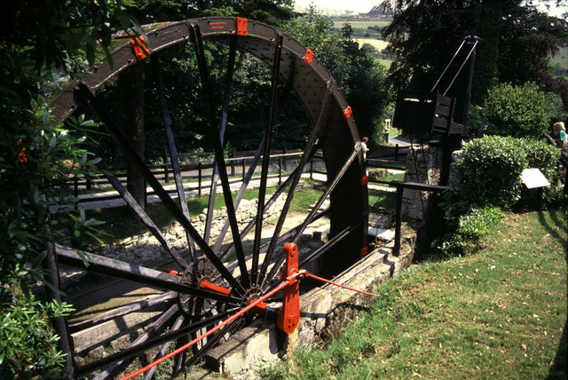 Wheal Martyn waterwheel Note the balance box in the background. The rod exiting stage left drives the pump.